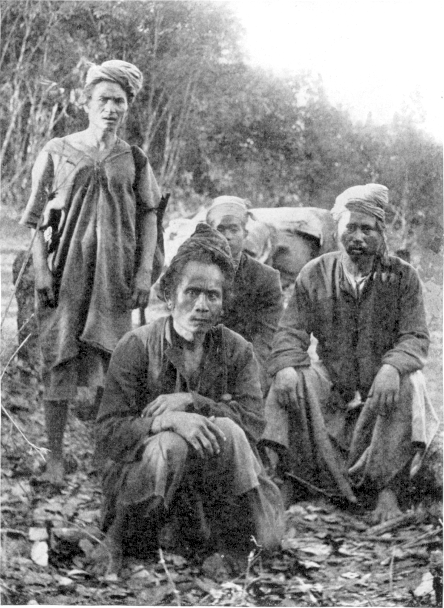 WHITE KAREN TRADERS The man on the left wears the national thindaing, the one on the right a hybrid European suit, and those in the middle the ordinary coat and trousers of the Shan.